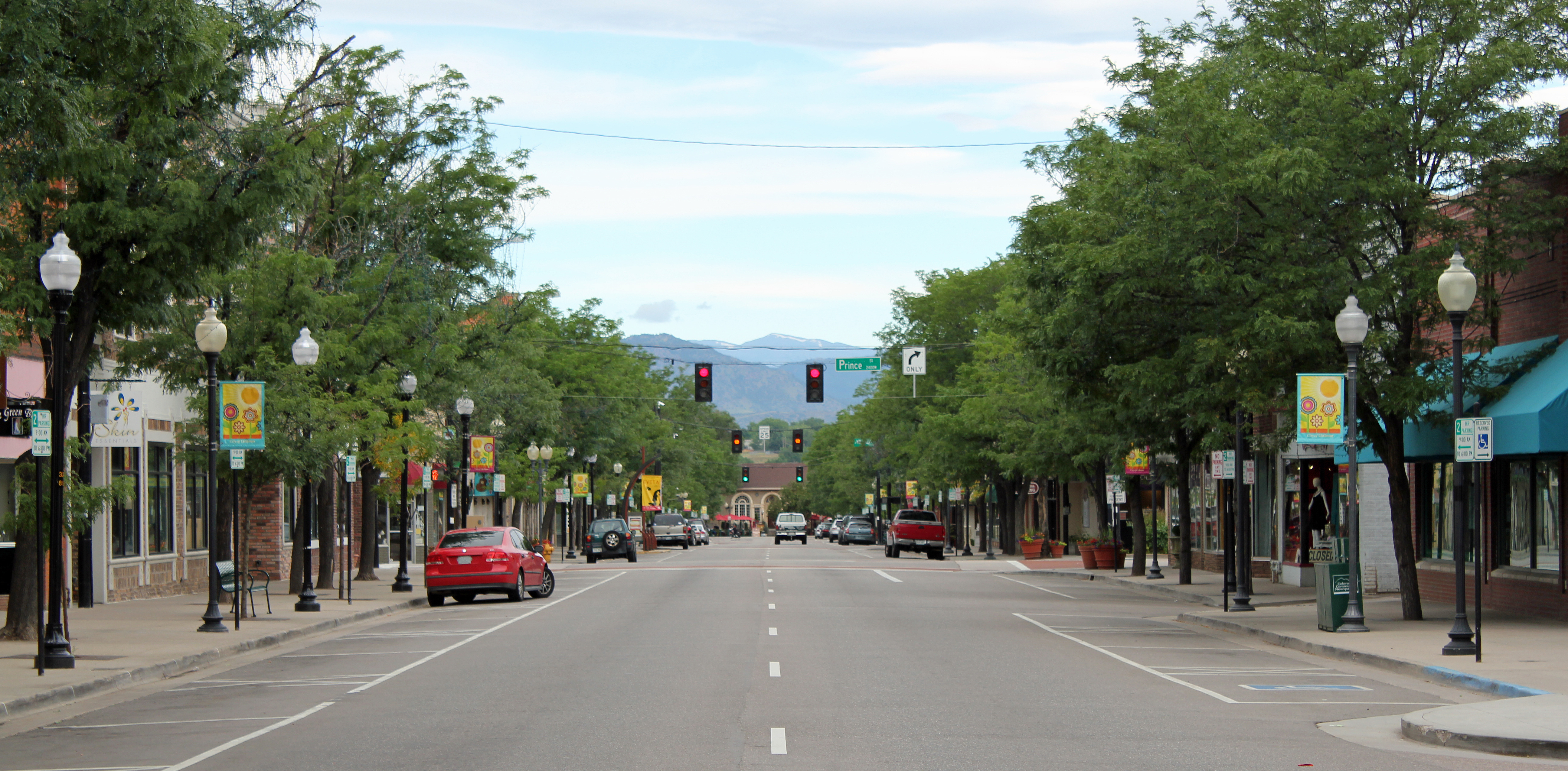 A section of Main Street in Littleton, Colorado. The site is listed on the National Register of Historic Places.